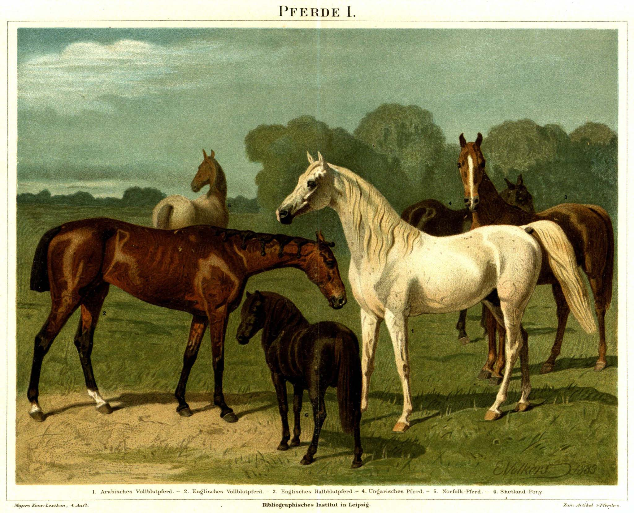 Different horse races